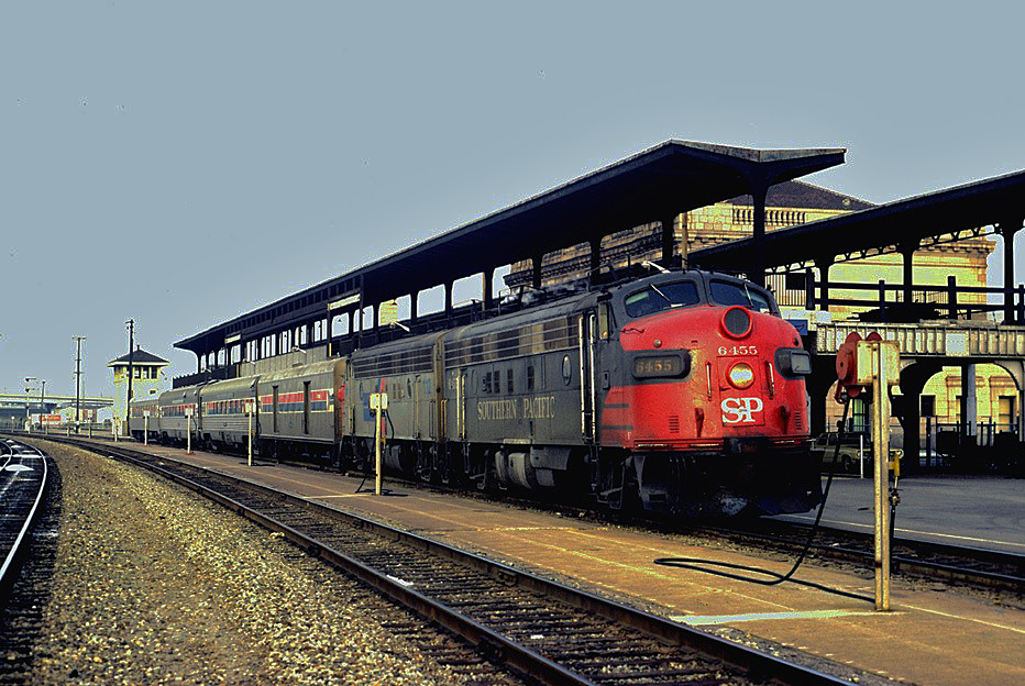 ex-SP #6455, then owned by Amtrak, arrives with the San Joaquin at SP's 16th Street depot in Oakland in March 1975